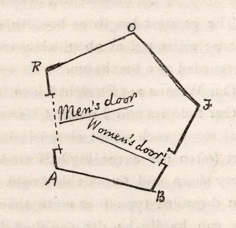 Illustration from page 7, in Flatland: a romance of many dimensions / with illustrations by the author, A Square. By Edwin Abbott Abbott (1838-1926). Published: London: Seeley & Co., 1884. *EC85 Ab264 884f Houghton Library, Harvard University